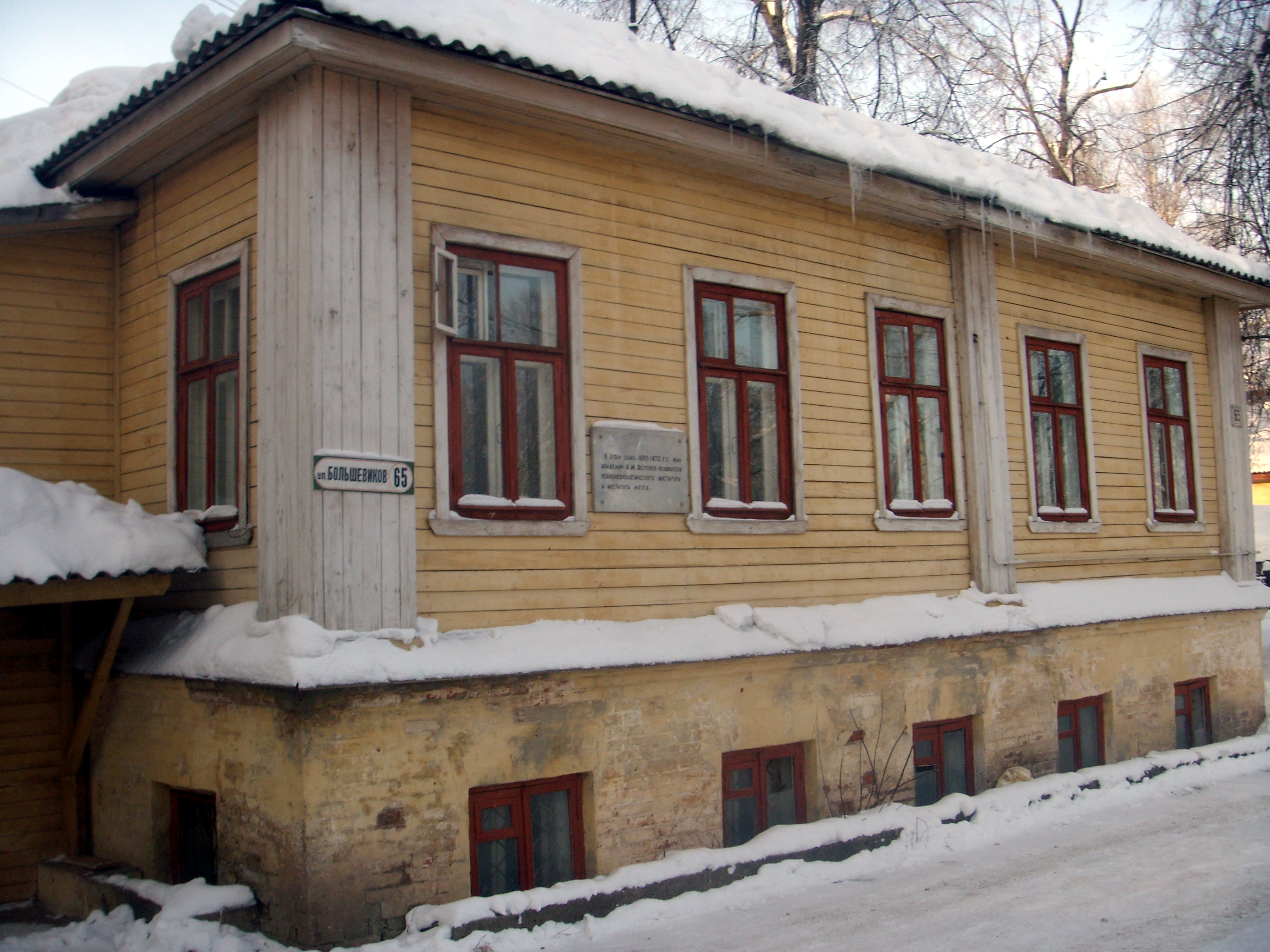 House of V. M. Bekhterev. Kirov, Russia.